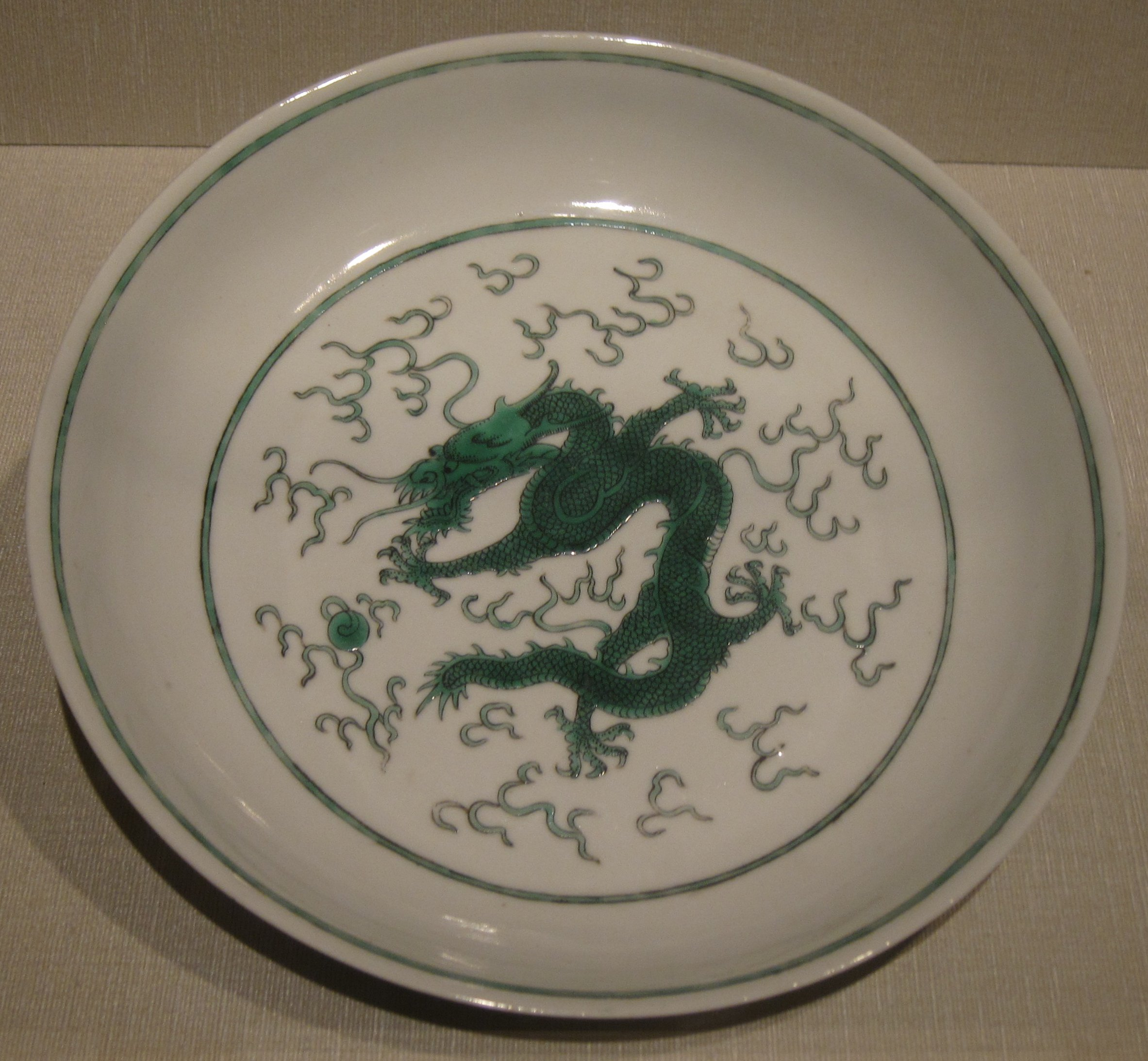 Dish from China, Qing dynasty, porcelain with glaze and enamel, Honolulu Museum of Art, accession 1118.1